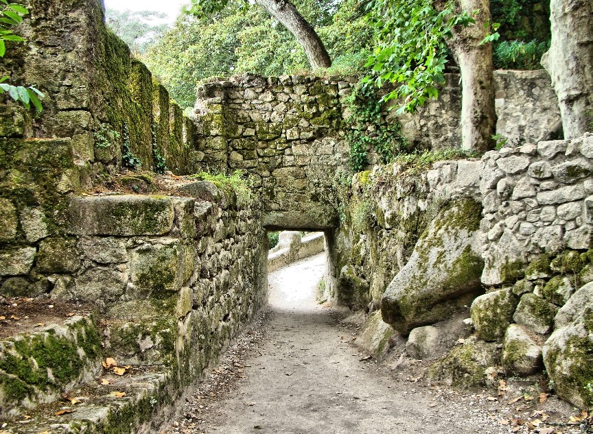 One of the entries to the Moors Castle